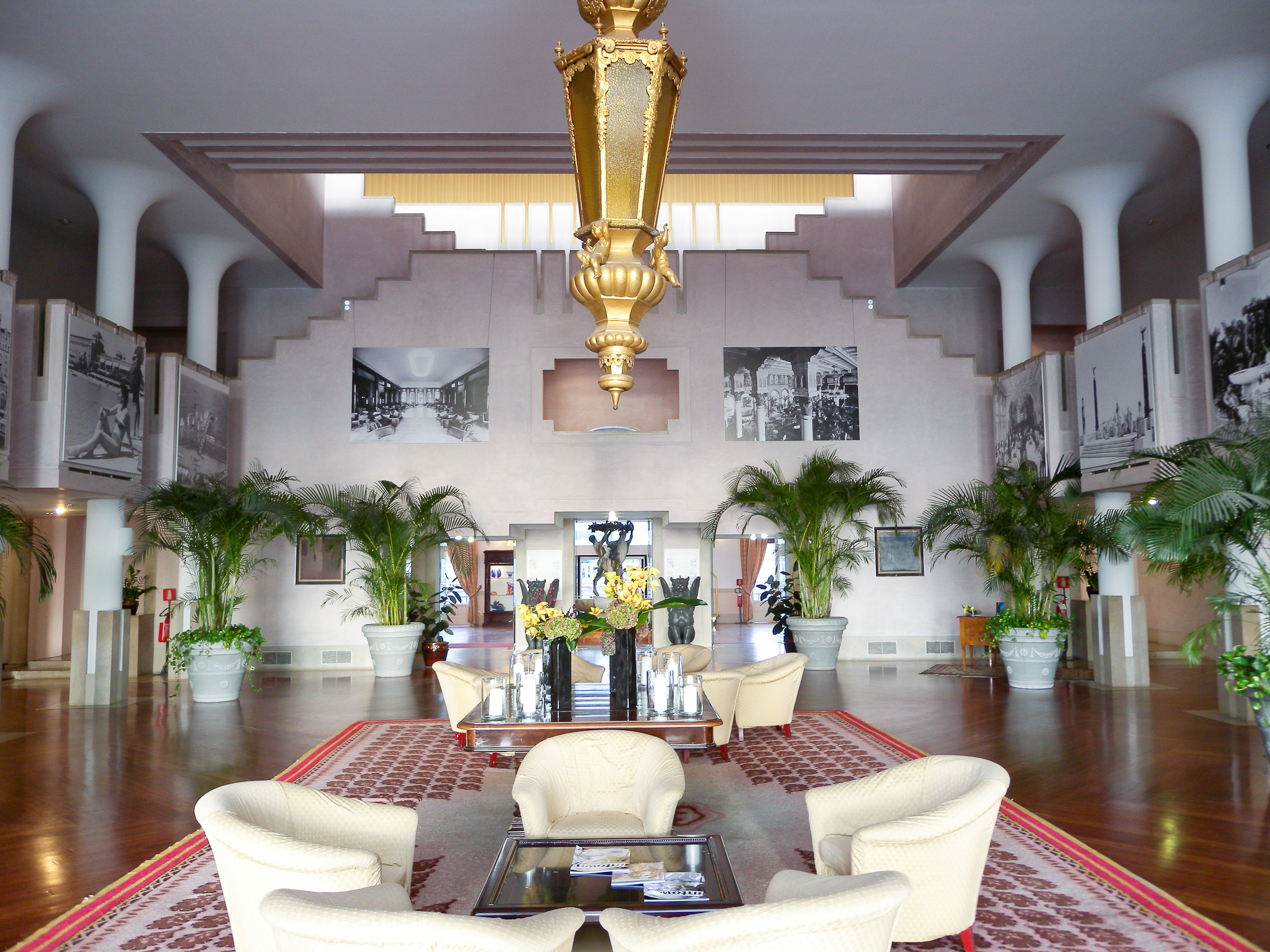 hall in Hotel Excelsior on Lido di Venezia